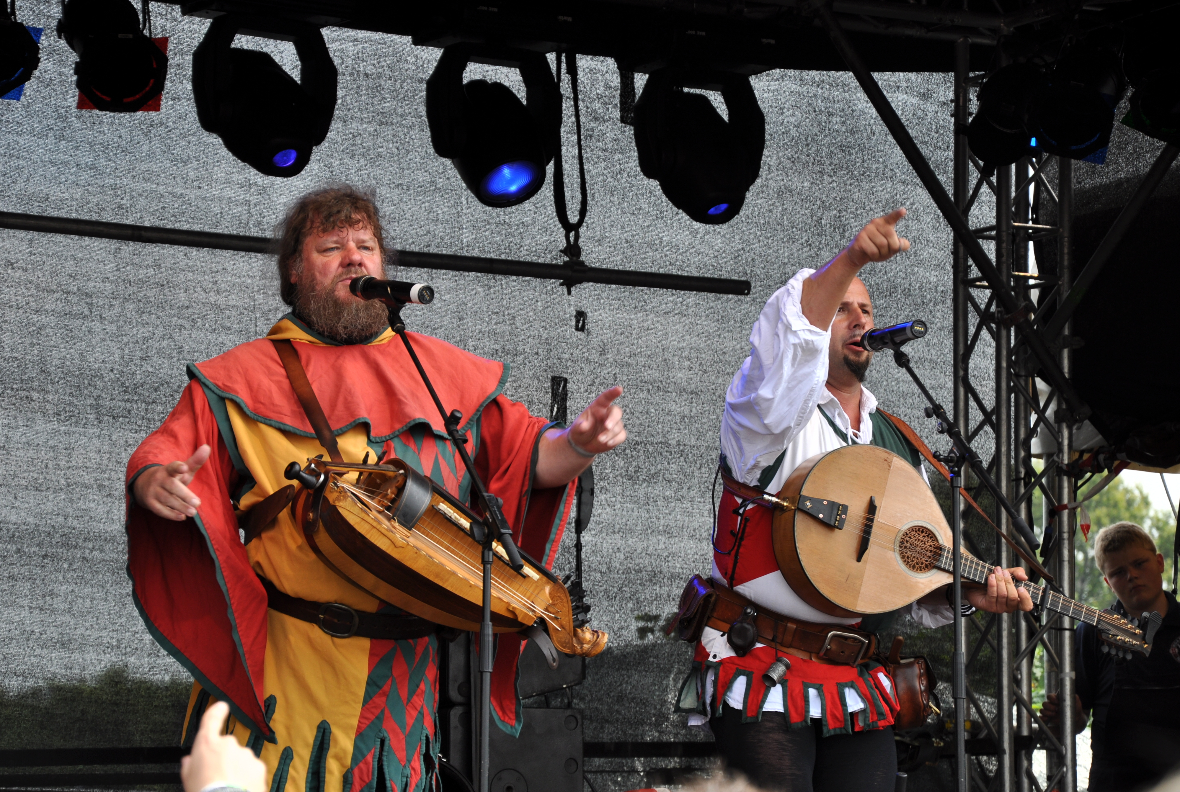 Pampatut at Wacken Open Air 2013